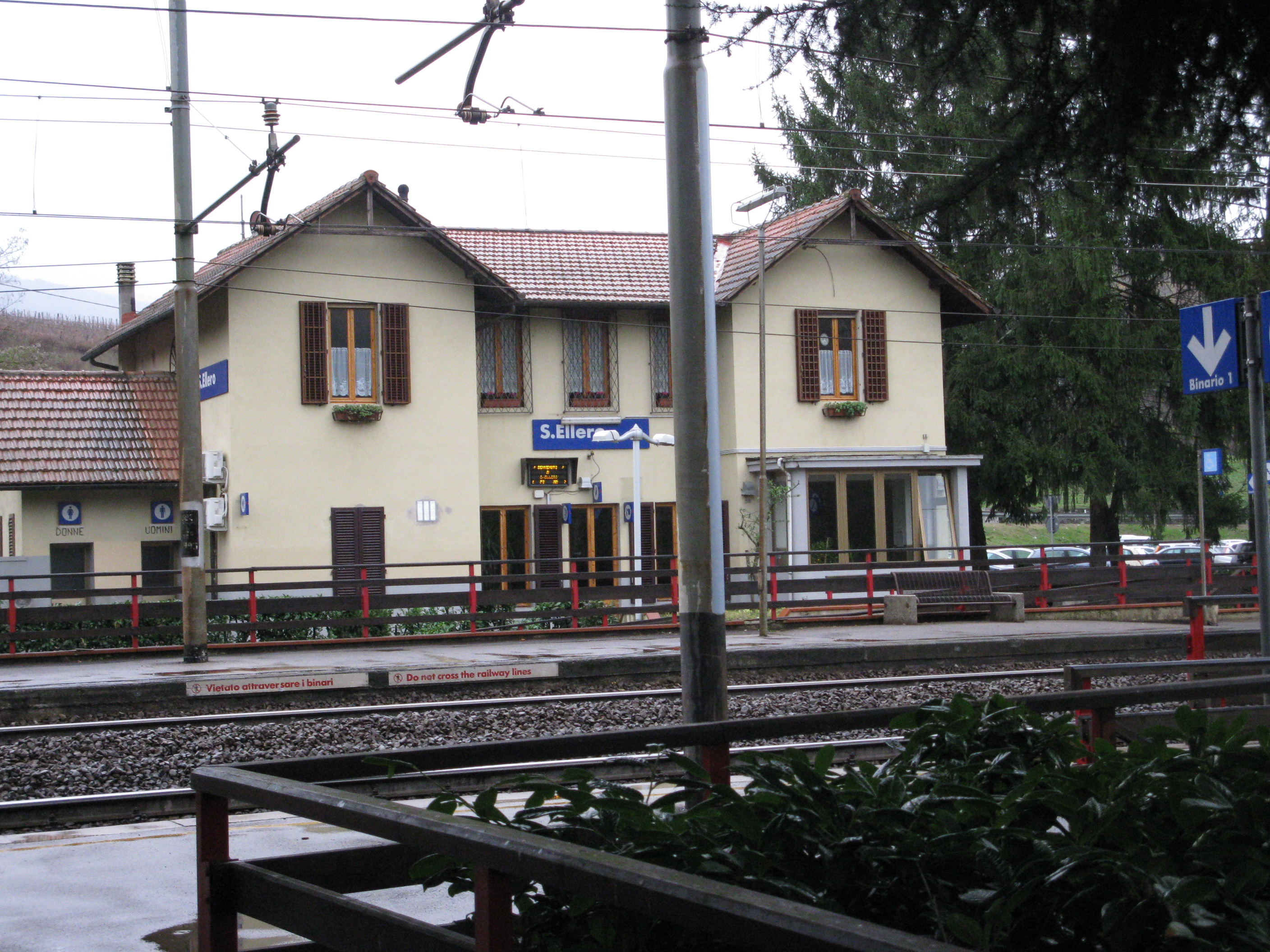 Sant’Ellero railway station